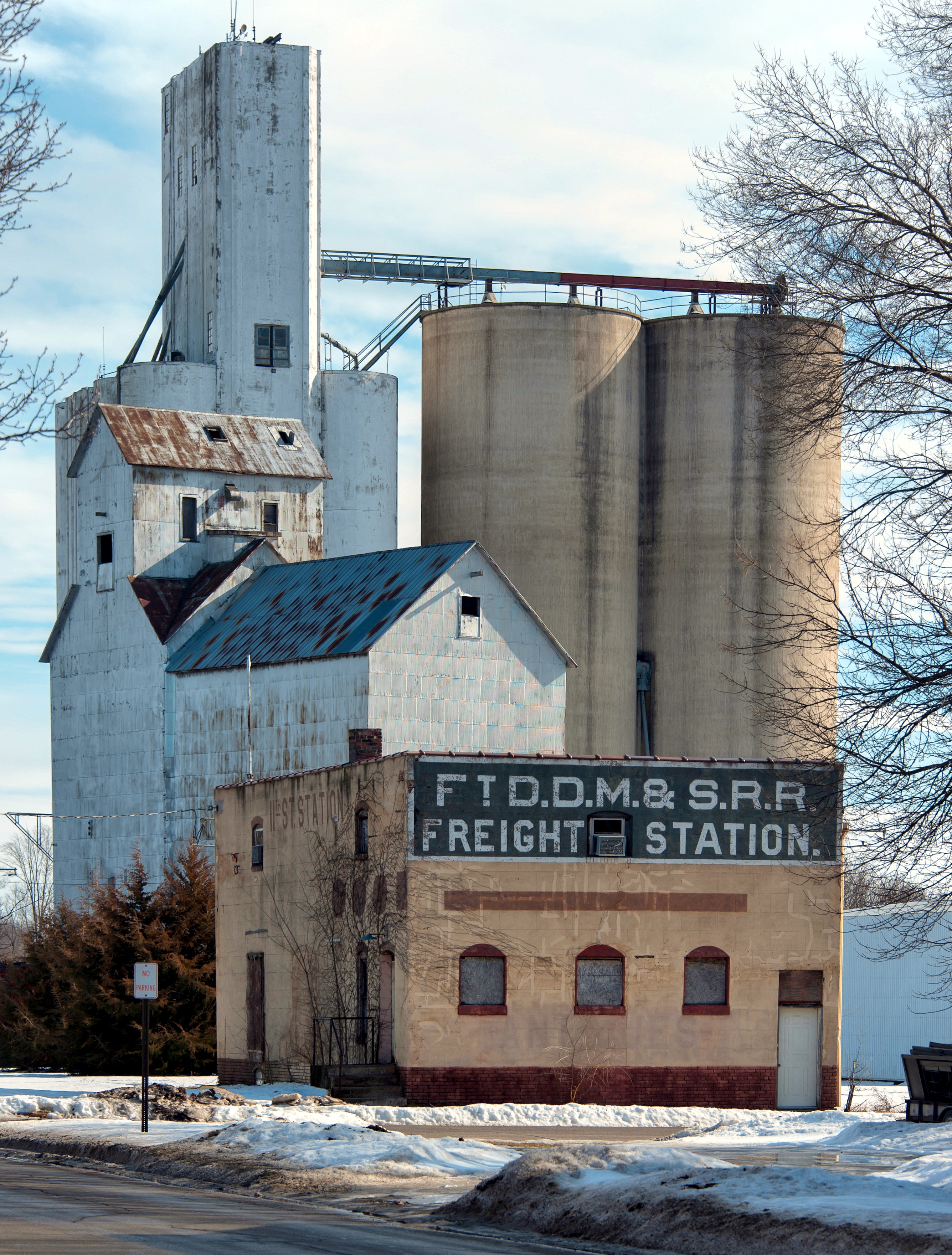 Grain Elevator in Boone, Iowa.